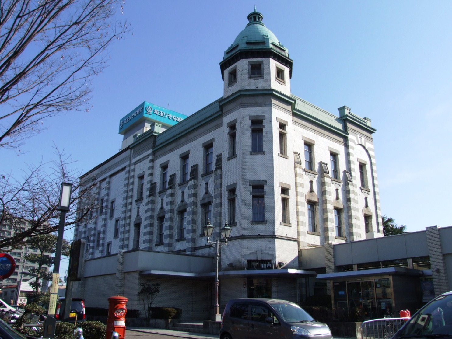 Saitama Risona Bank Kawagoe Branch, Kawagoe, Saitama, Japan